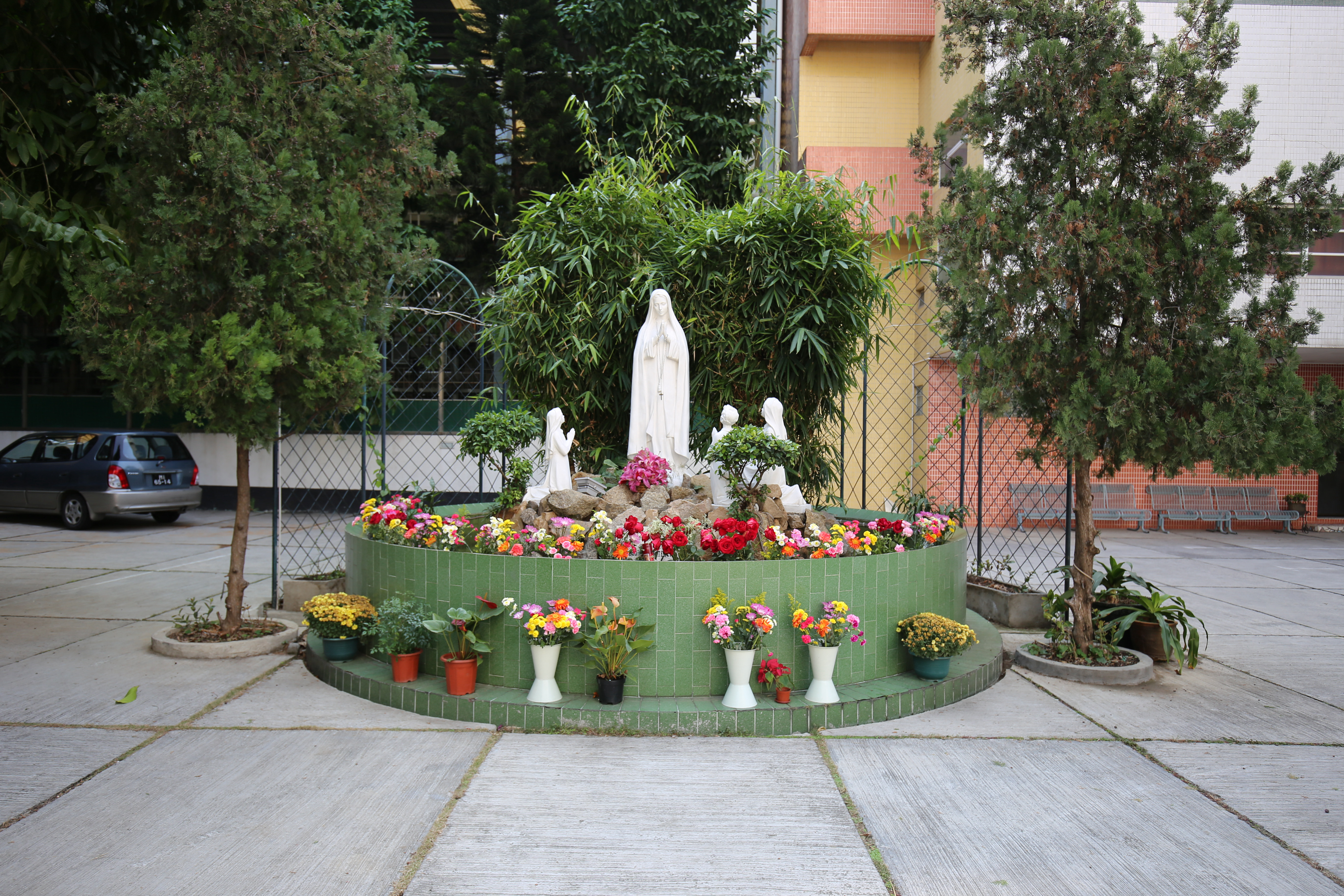 Fatima Church Macau